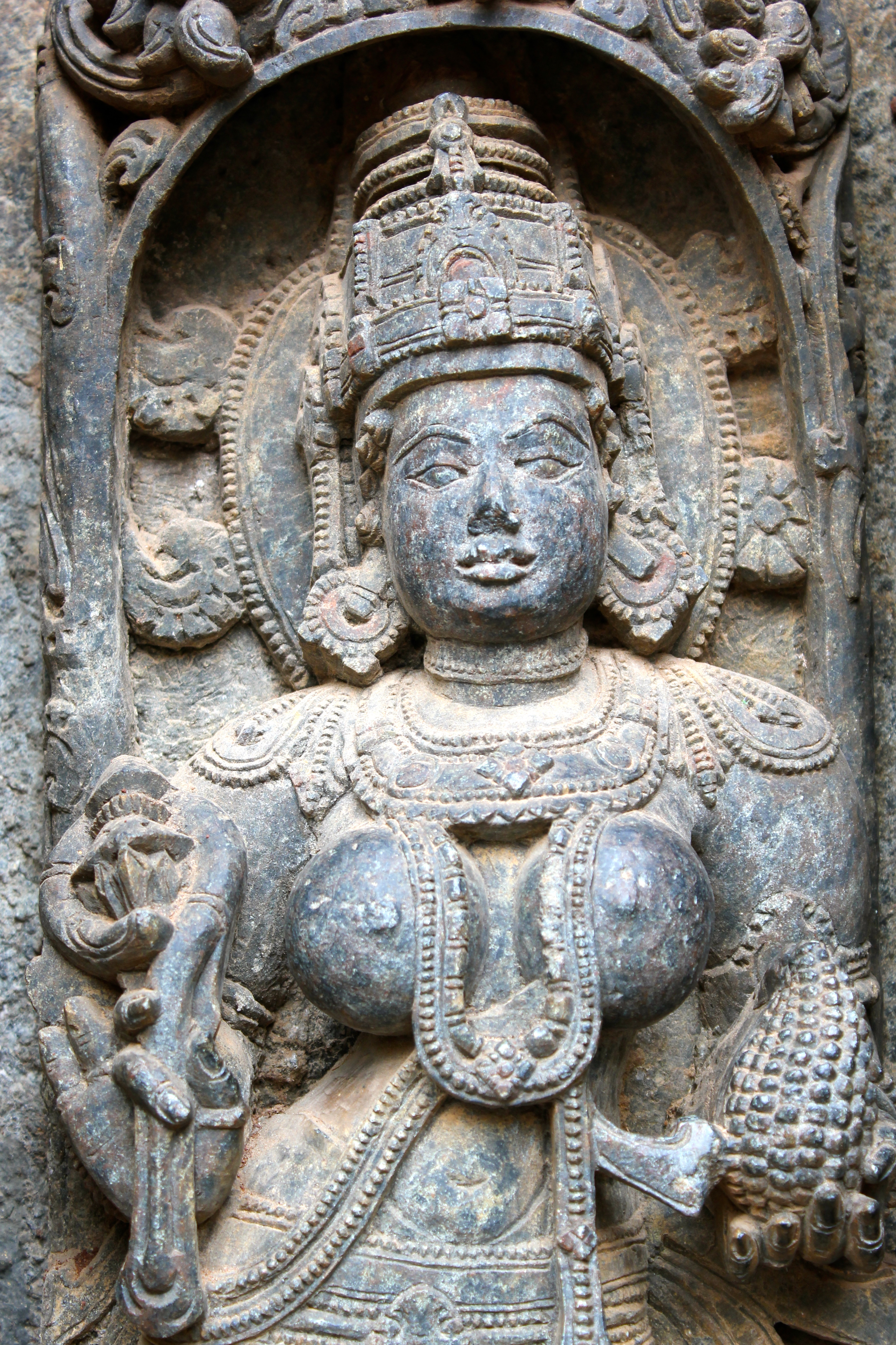 Chennakesava temple at Somanathapura, Karnataka, India. Wonderful example of Hoysala architecture of the 13th century. This and other idols were desecrated by marauding invaders. Hindu temple, India Sep 2013